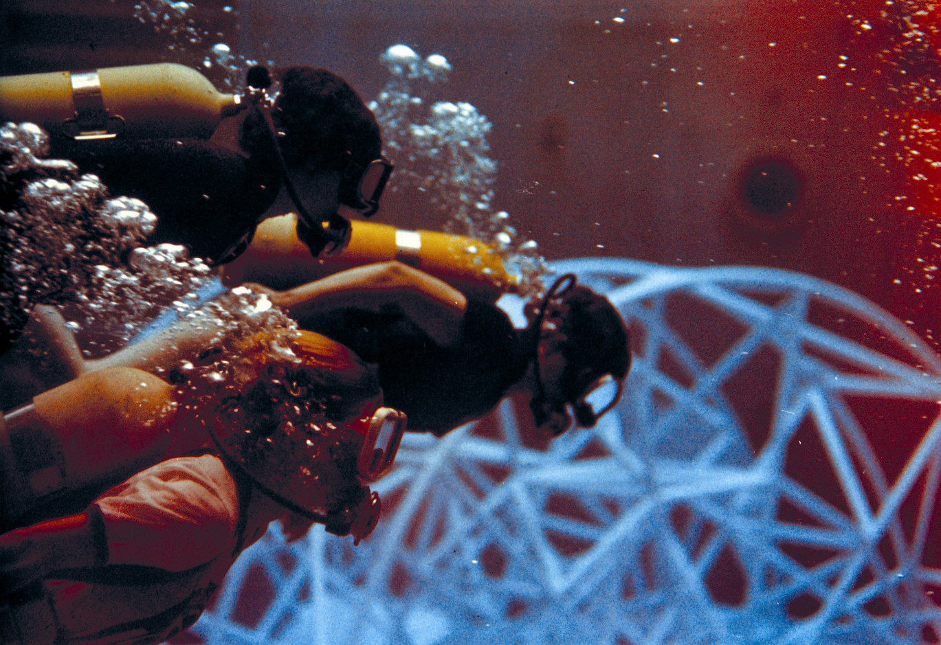 Women scientists in training at Marshall Space Flight Center, (top to bottom) Carolyn Griner, Ann Whitaker, and Dr. Mary Johnston, are shown simulating weightlessness while undergoing training in the Neutral Buoyancy Simulator. These women were part of a special program dedicated to gaining a better understanding of problems involved in performing experiments in space. The three were engaged in designing and developing experiments for space, such as materials processing for Spacelabs. Dr. Johnston specialized in metallurgical Engineering, Dr. Whitaker in lubrication and surface physics, and Dr. Griner in material science. Dr. Griner went on to become Acting Center Director at Marshall Space Flight Center from January to September 1998. She was the first woman to serve. Image # : 75-HC-665